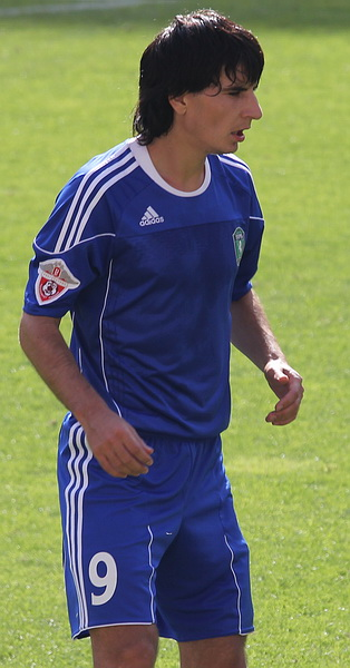 Sergey Kovalchuk